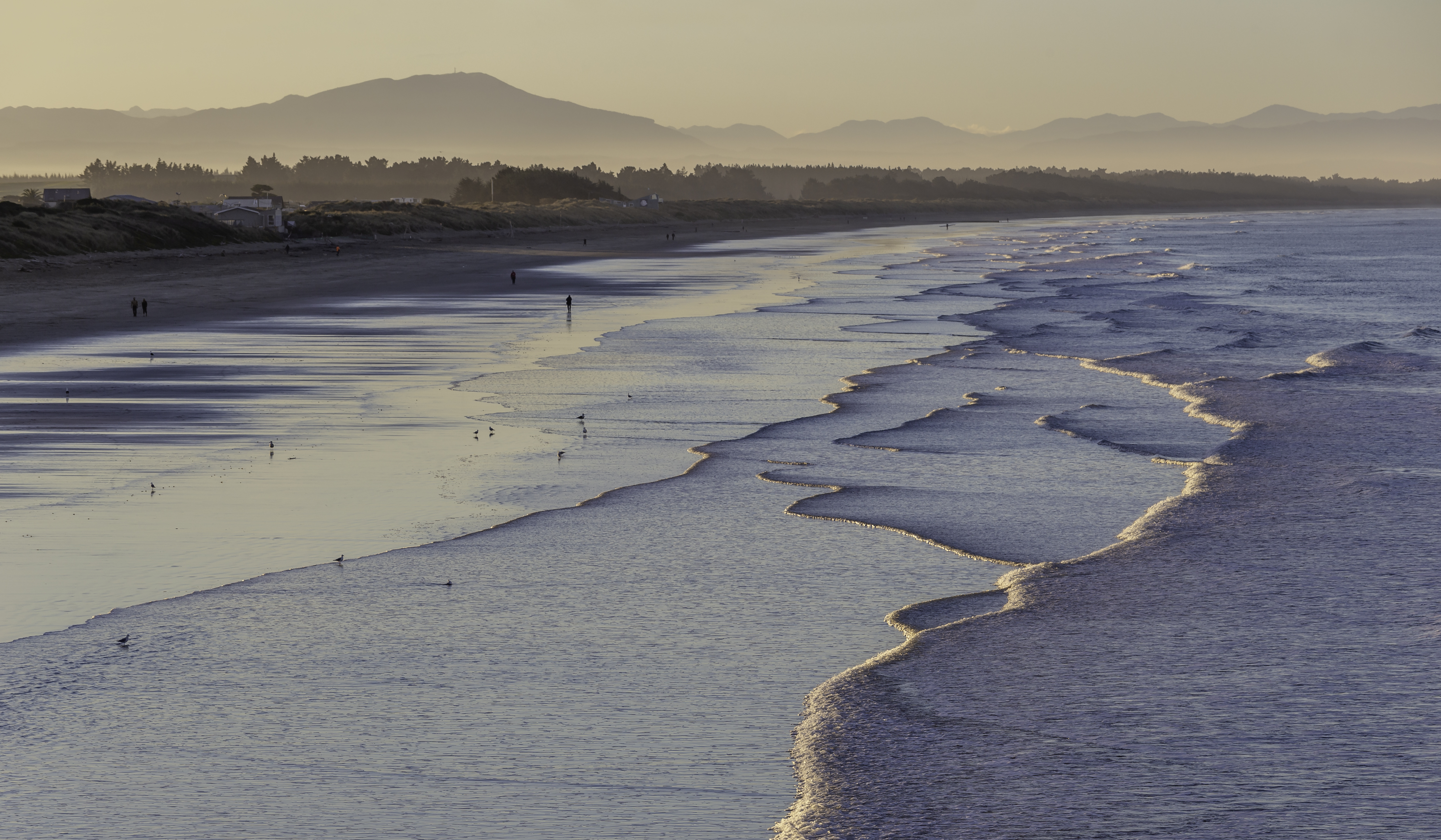 Beach, New Brighton, New Zealand